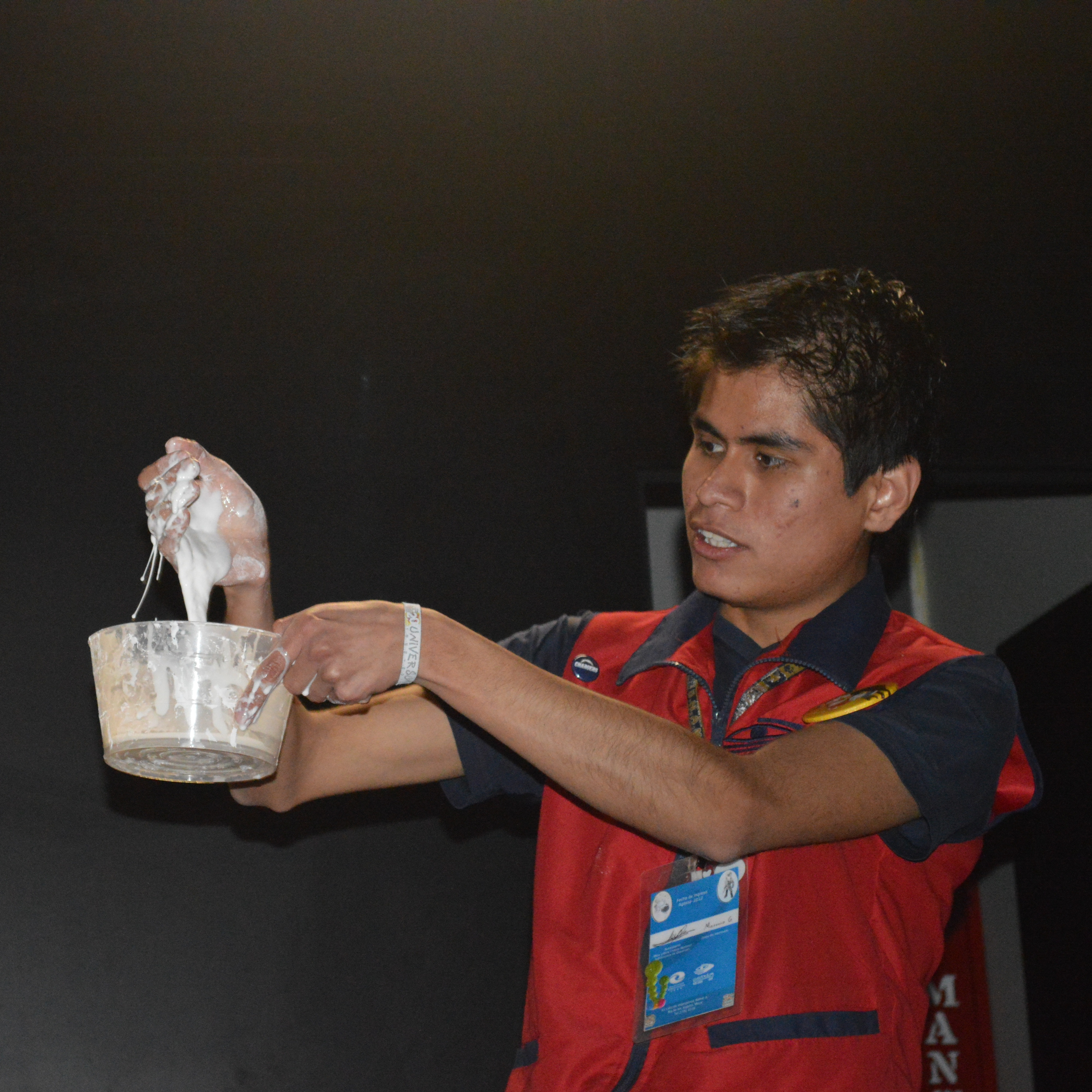 Chemistry demonstration with a non-Newtonian fluid at Universum in Ciudad Universitaria in Mexico City